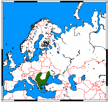 Lesser Mole Rat (Spalax leucodon, or Nannospalax leucodon), range map, depending on the range map at IUCN red list